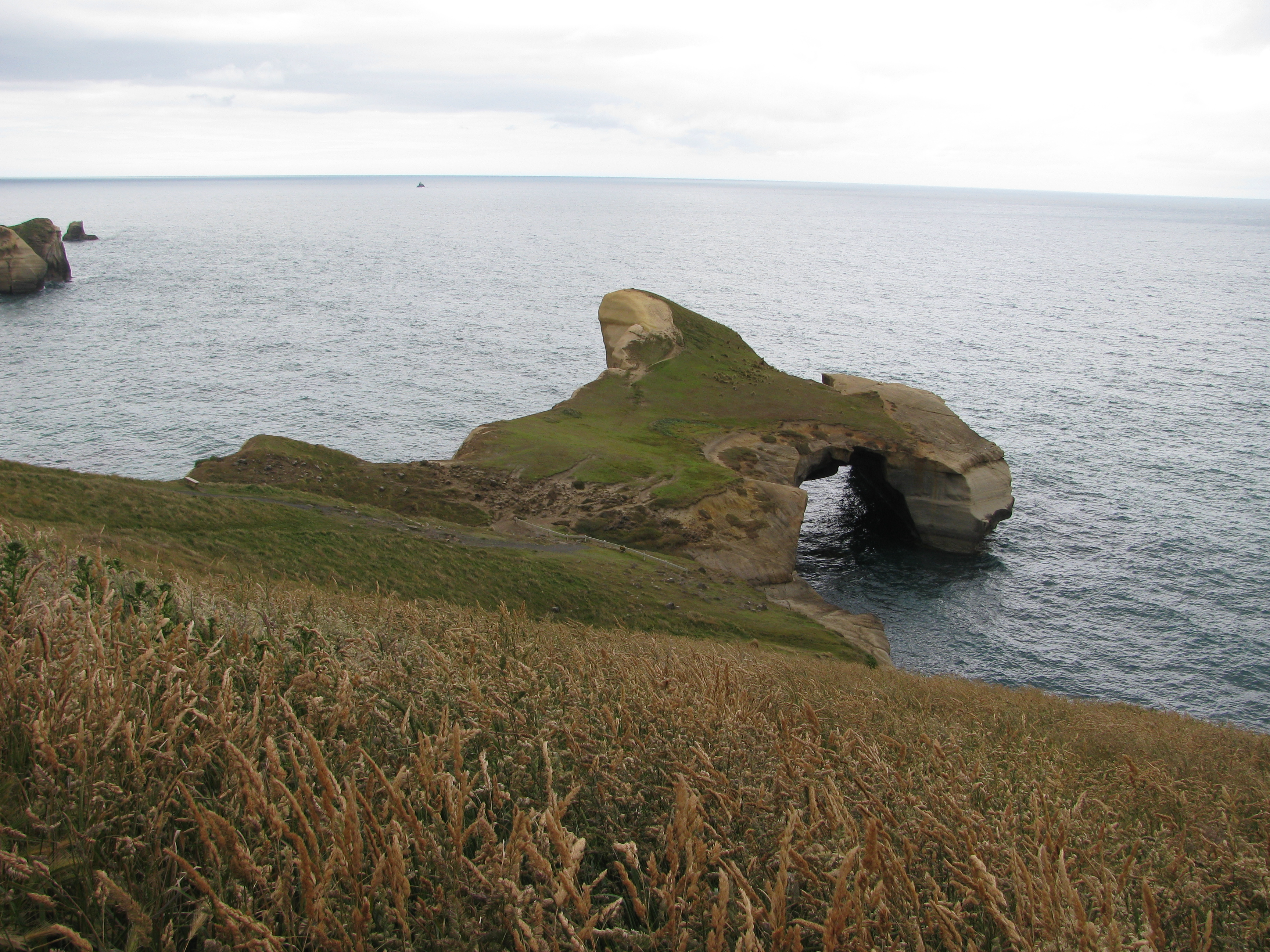 Tunnel Beach Arch, New Zealand